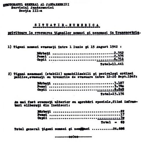 1942 report through which the Romanian Gendarmerie communicates the total number of Romani people deported into Transnistria by the Antonescu regime. General Inspectorate of the Gendarmerie Gendarmerie Service IIIrd Section NUMERICAL SITUATION concerning the eviction of nomadic and non-nomadic Gypsies into Transnistria. 1) Nomadic Gypsies evicted between 1 June and 15 August 1942 : Men.........................2,352 Women...................2,375 Children..................6,714 ---------------- Total=11,441 2) Non-nomadic (sedentary) Gypsies not subject to the draft and dangerous for public order, evicted by eviction trains between 12-20 Sept.1942 : Men.........................3,187 Women...................3,780 Children..................6,209 ---------------- Total=13,176 Later evicted on the basis of special approvals, as criminals set free from prisons: Men.........................22 Women...................17 Children..................30 ---------------- Total=69 General total for nomadic and non-nomadic Gypsies....24,686